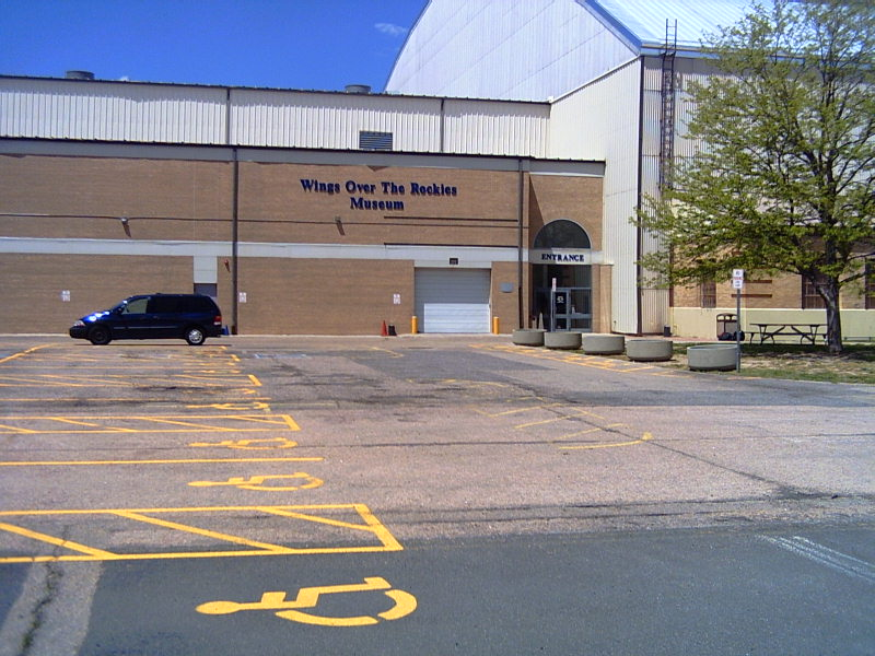 Updated Wings Over the Rockies Air & Space Museum front of the building. New pic taken by Lance Barber.